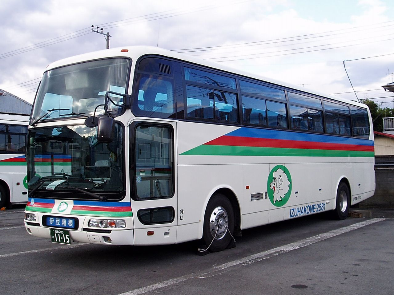 Izuhakone Bus MITSUBISHI Fuso AEROQUEEN KC-MS822P 2007.11.19 Photo by Cassiopeia_sweet. This picture is obtaining and photoing permission of the persons concerned.